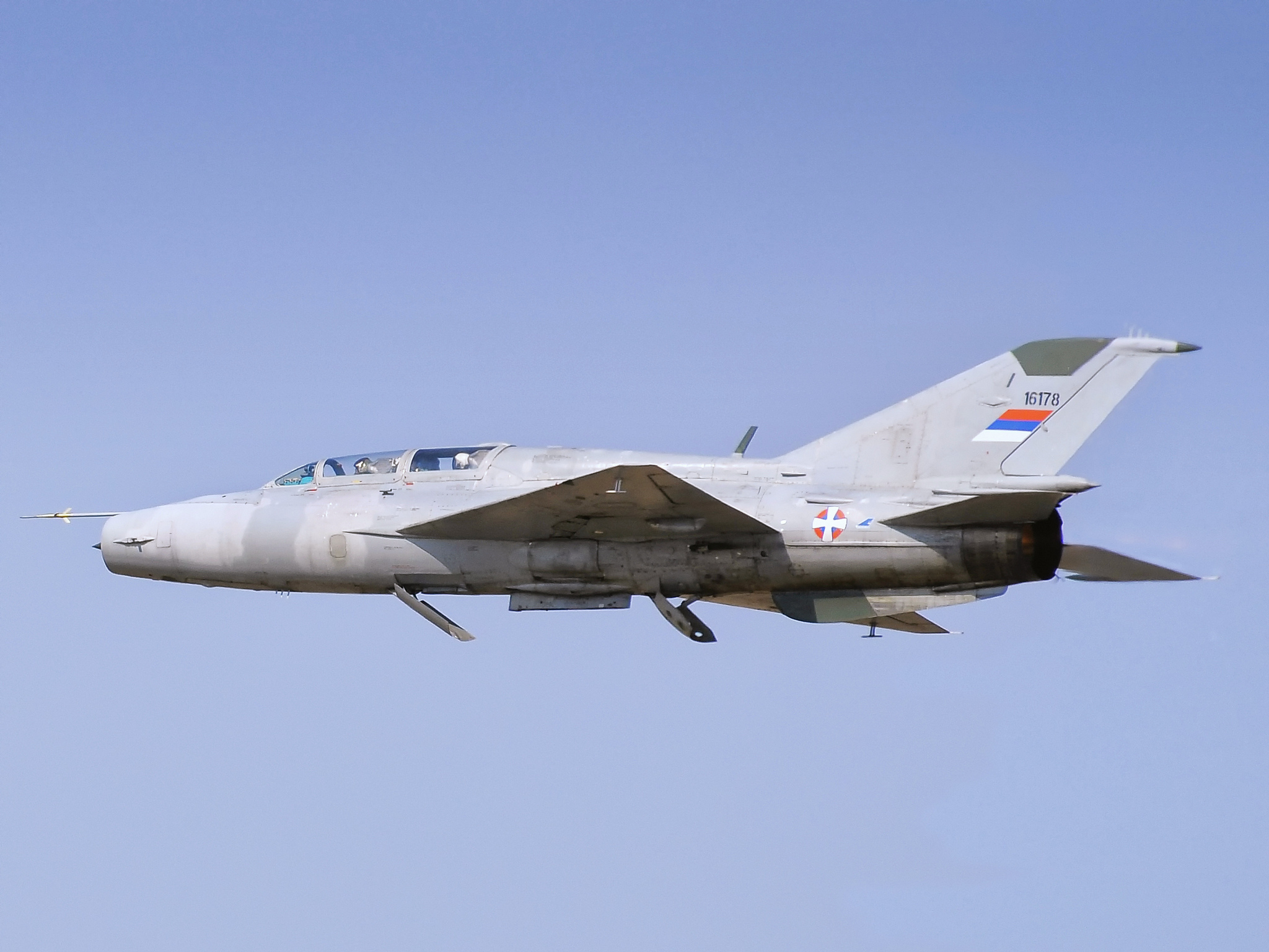 MiG-21 UM trainer-fighter aircraft No.16178 of 101. Fighter-Aviation Squadron of 204th Air Brigade of Serbian Air Force in flight during the Batajnica 2012 Air Show.